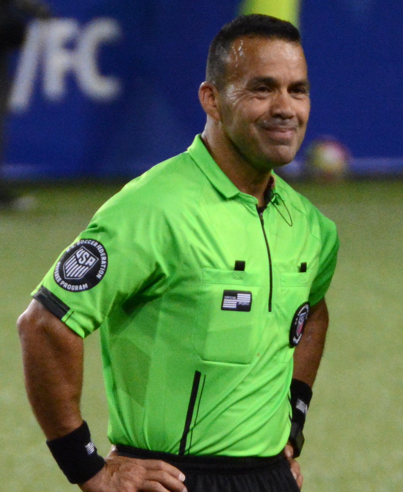 Referee Hilario Grajeda at a U.S. Open Cup match between FC Cincinnati and Chicago Fire SC at Nippert Stadium in Cincinnati, Ohio on June 28, 2017.